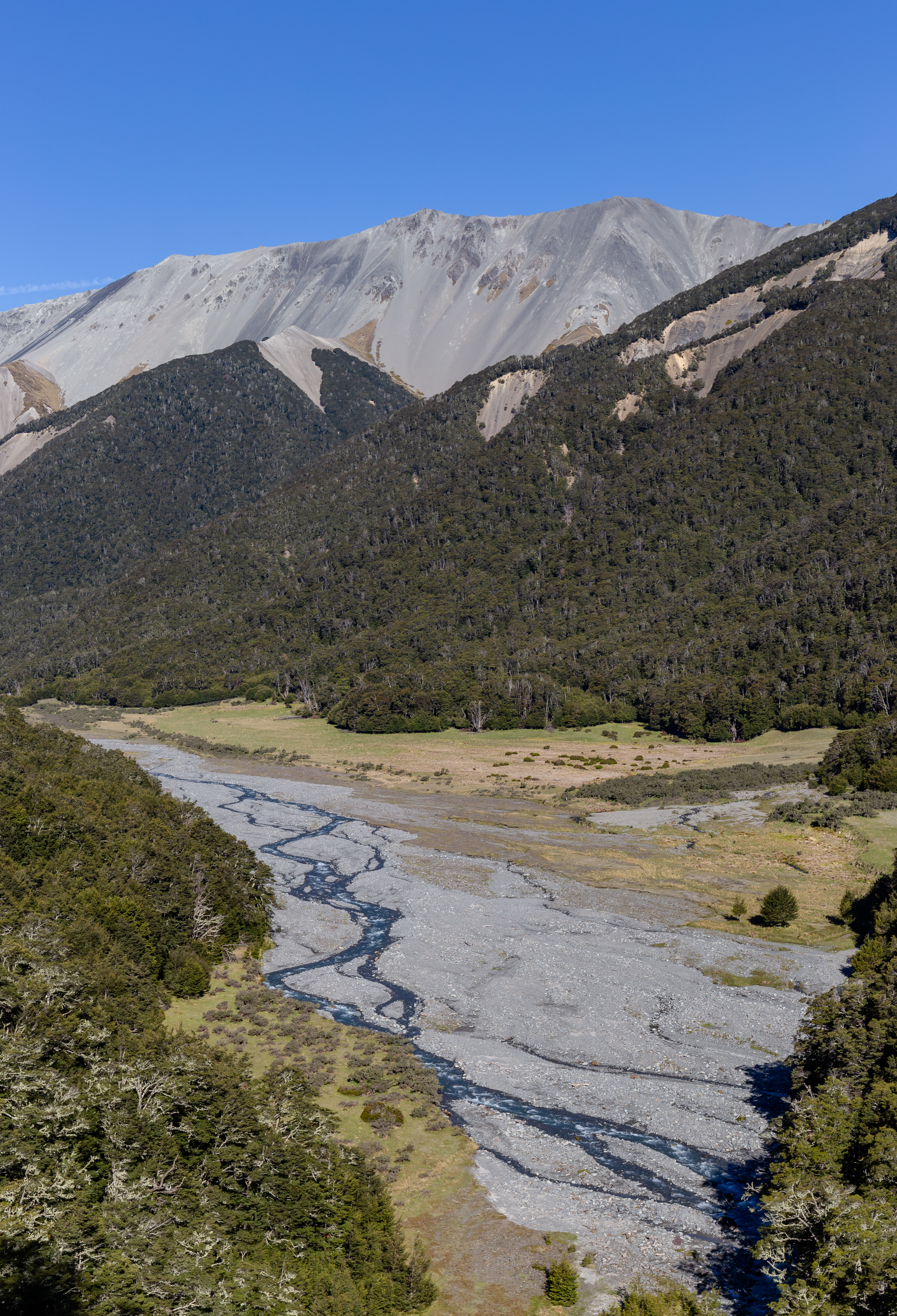 Harper River, Craigieburn Forest Park, New Zealand